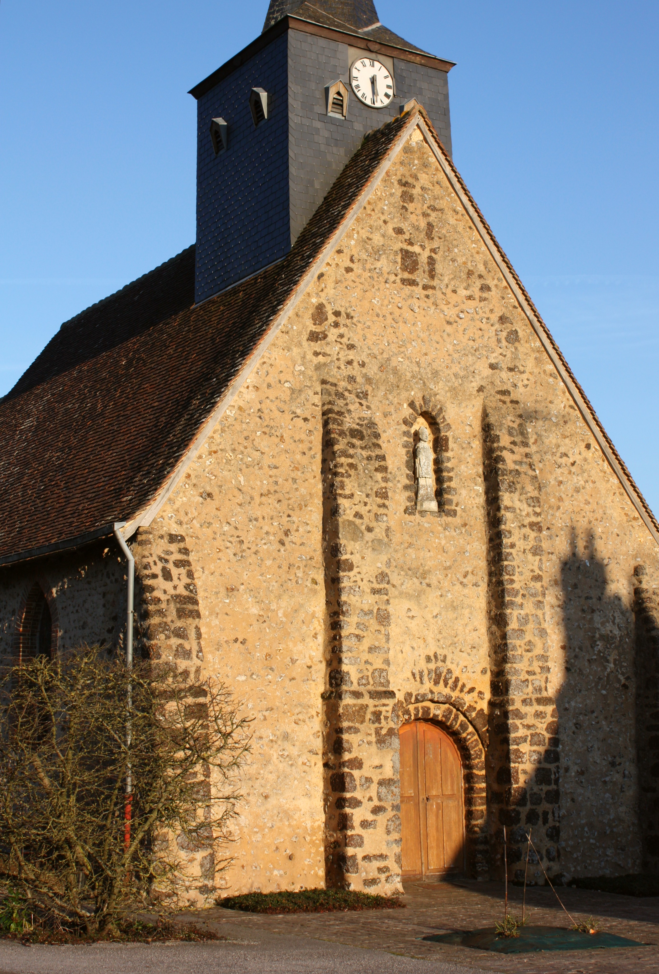 Church of Our Lady, Chapelle-Guillaume, Eure-et-Loir, France